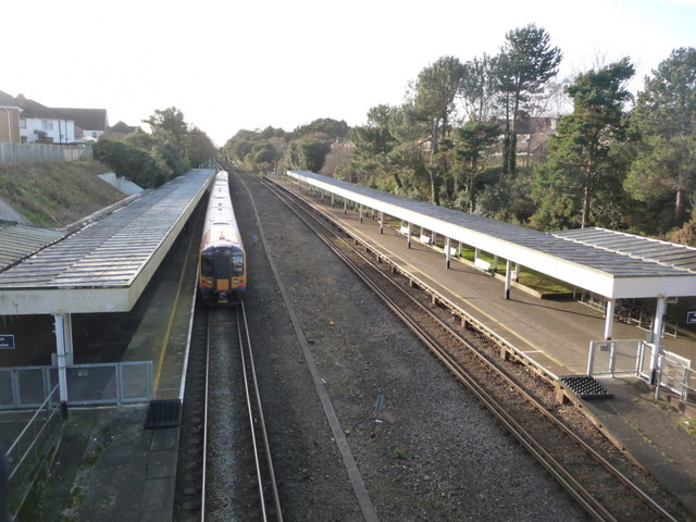 Looking along the very long platforms at Pokesdown station from the footbridge.